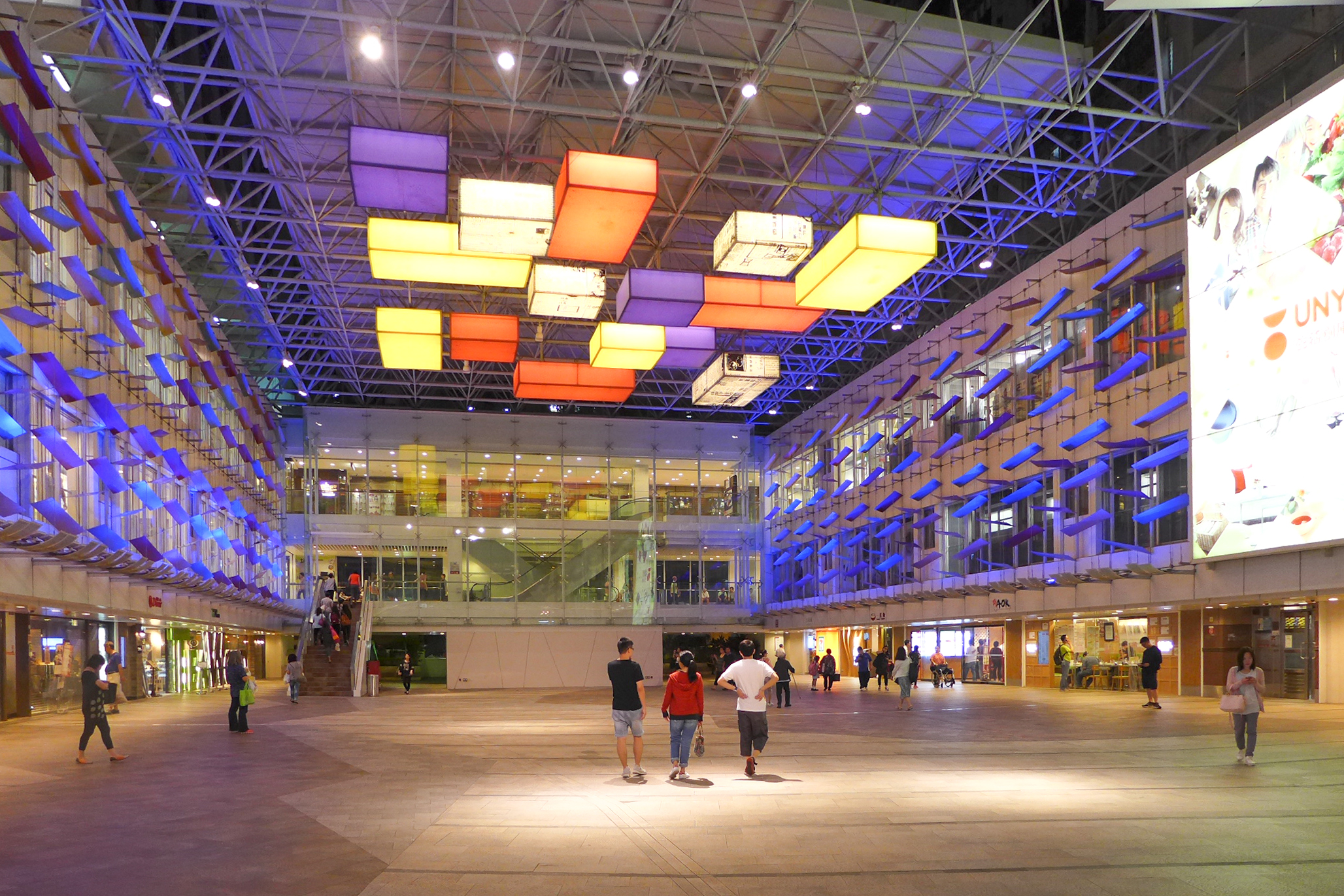 Lok Fu Place Phase 1 Night view